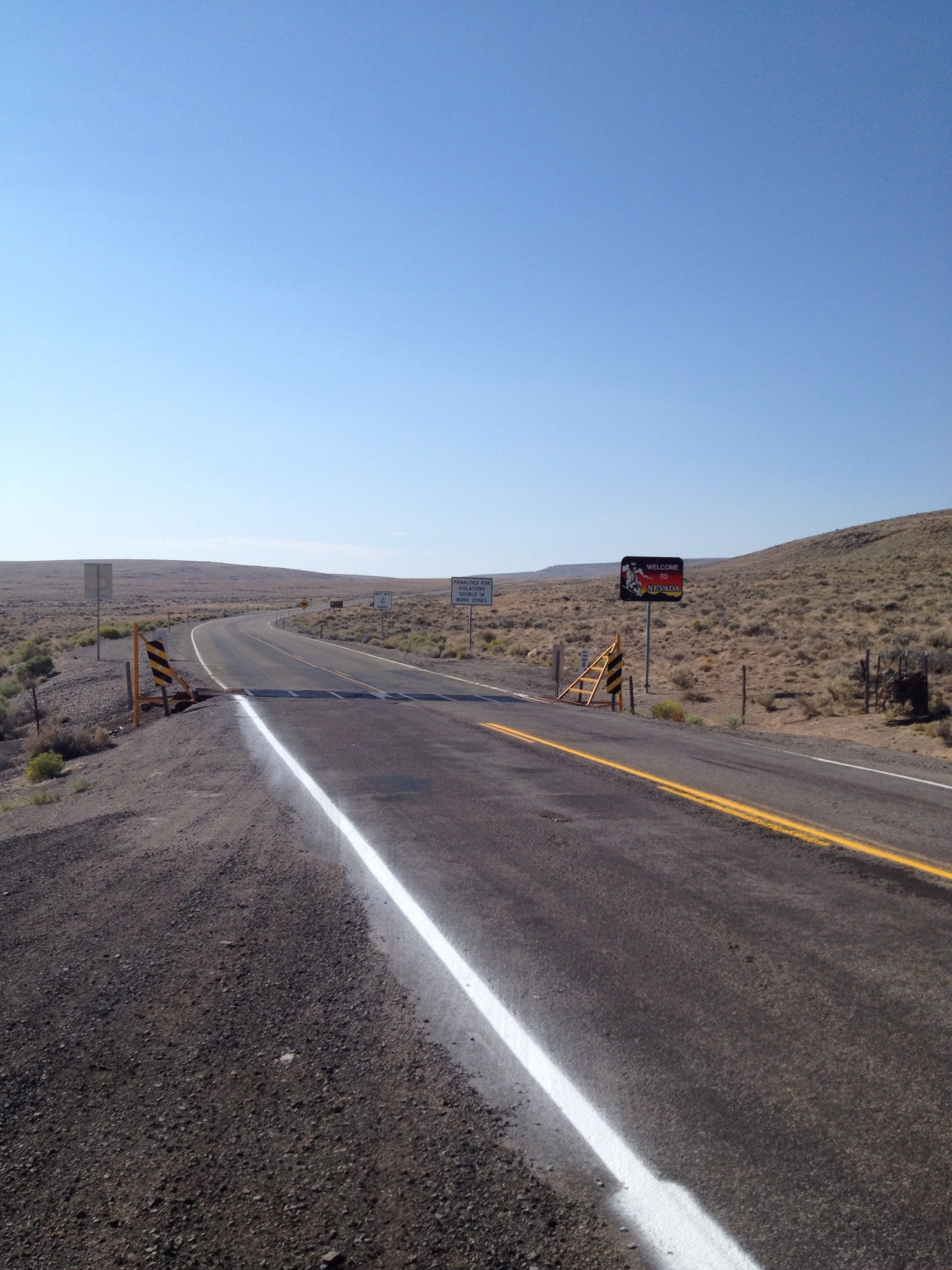 Looking south at Nevada, this is where Nevada Route 140 meets Oregon Route 140.